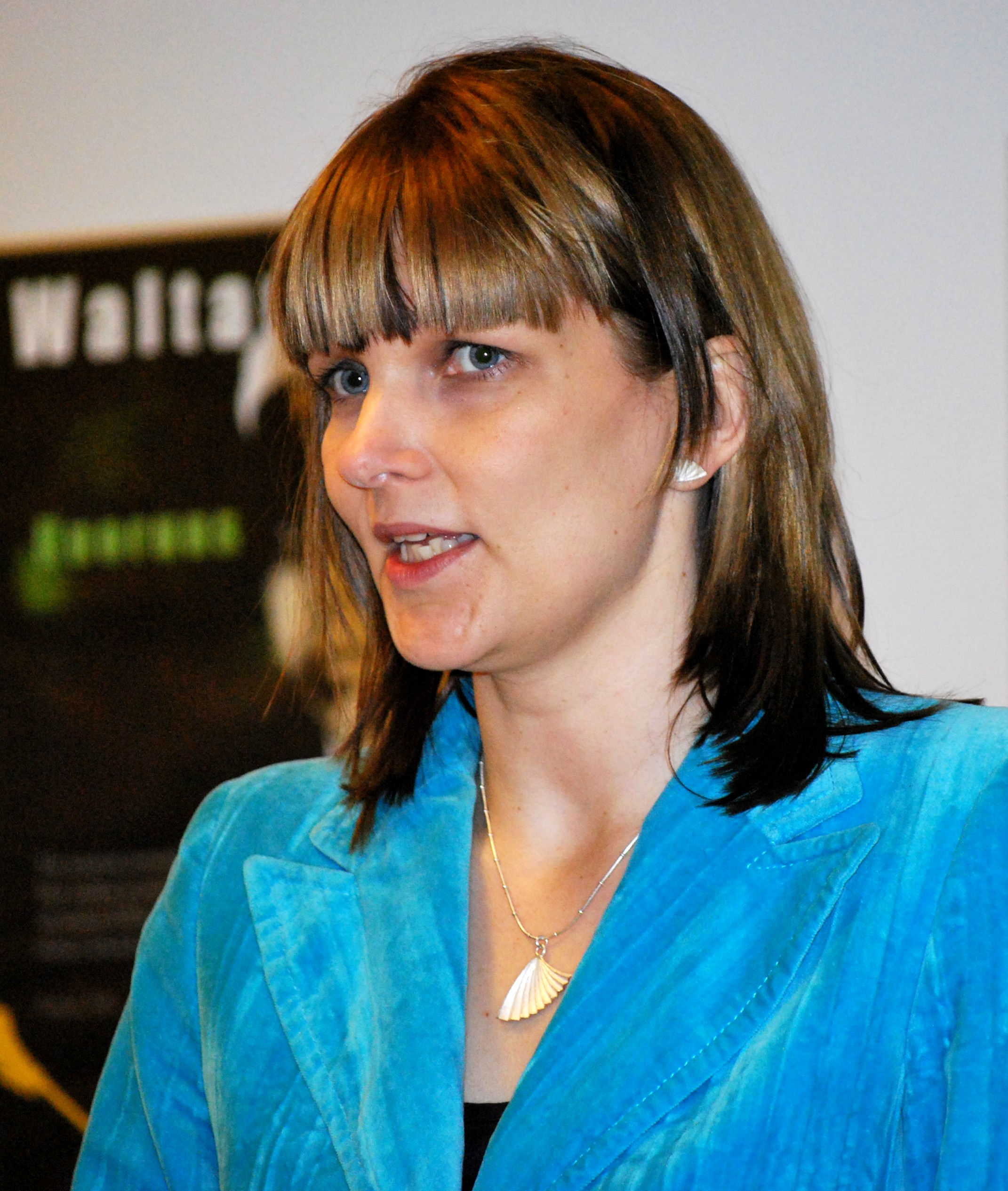 Mari Kiviniemi, Finnish politician, in Töölö library in Helsinki, October 2008.